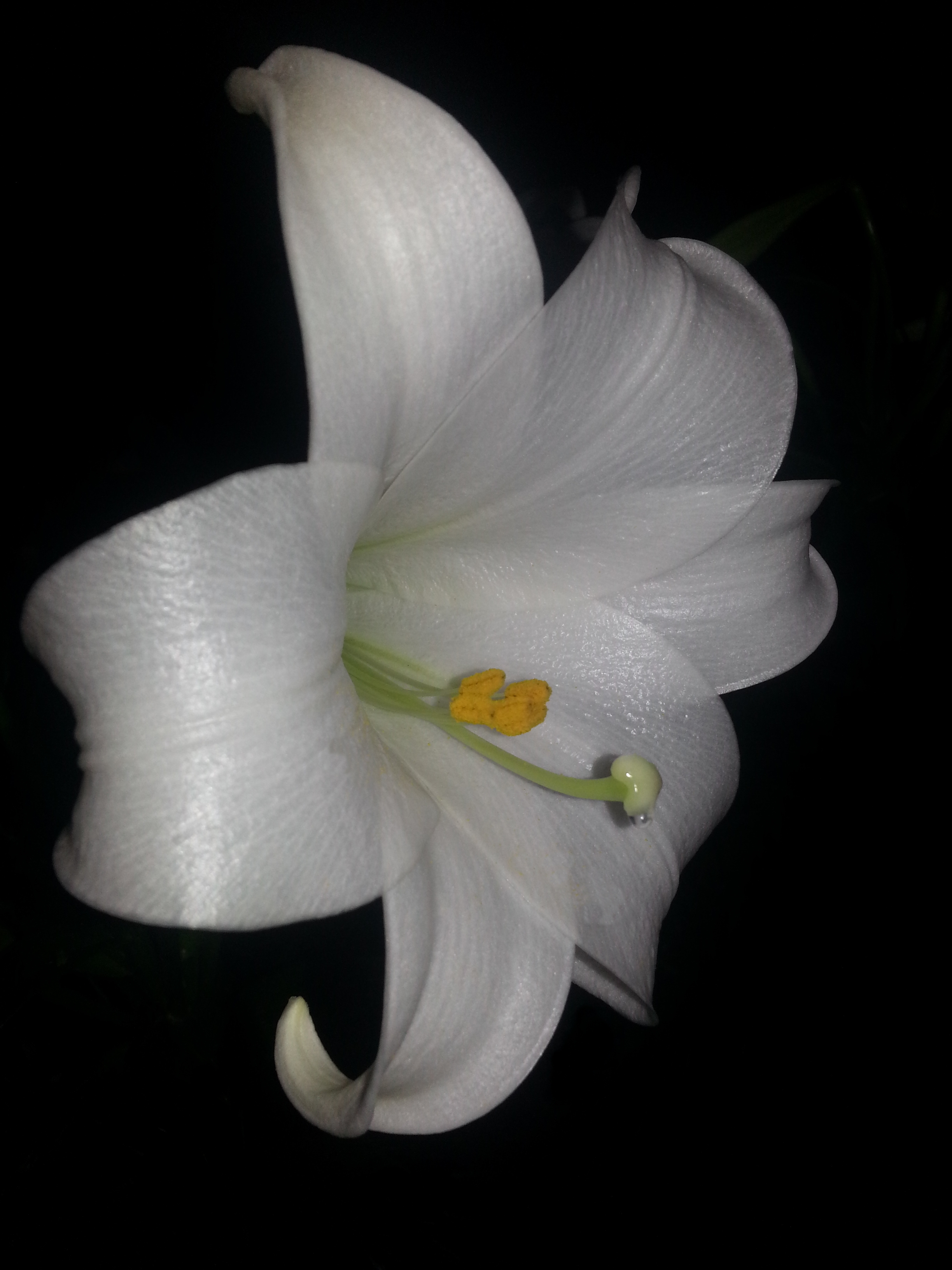 Lilium candidum flower. Tepals have separated and are completely open. The stigmatic liquid became apparent and viscous, indicating that the flower is receptive. The liquid that exudes from the tissues of the stigma onto its surface prevents drying out of the surface and provides a suitable medium for the germination of the pollen grains.